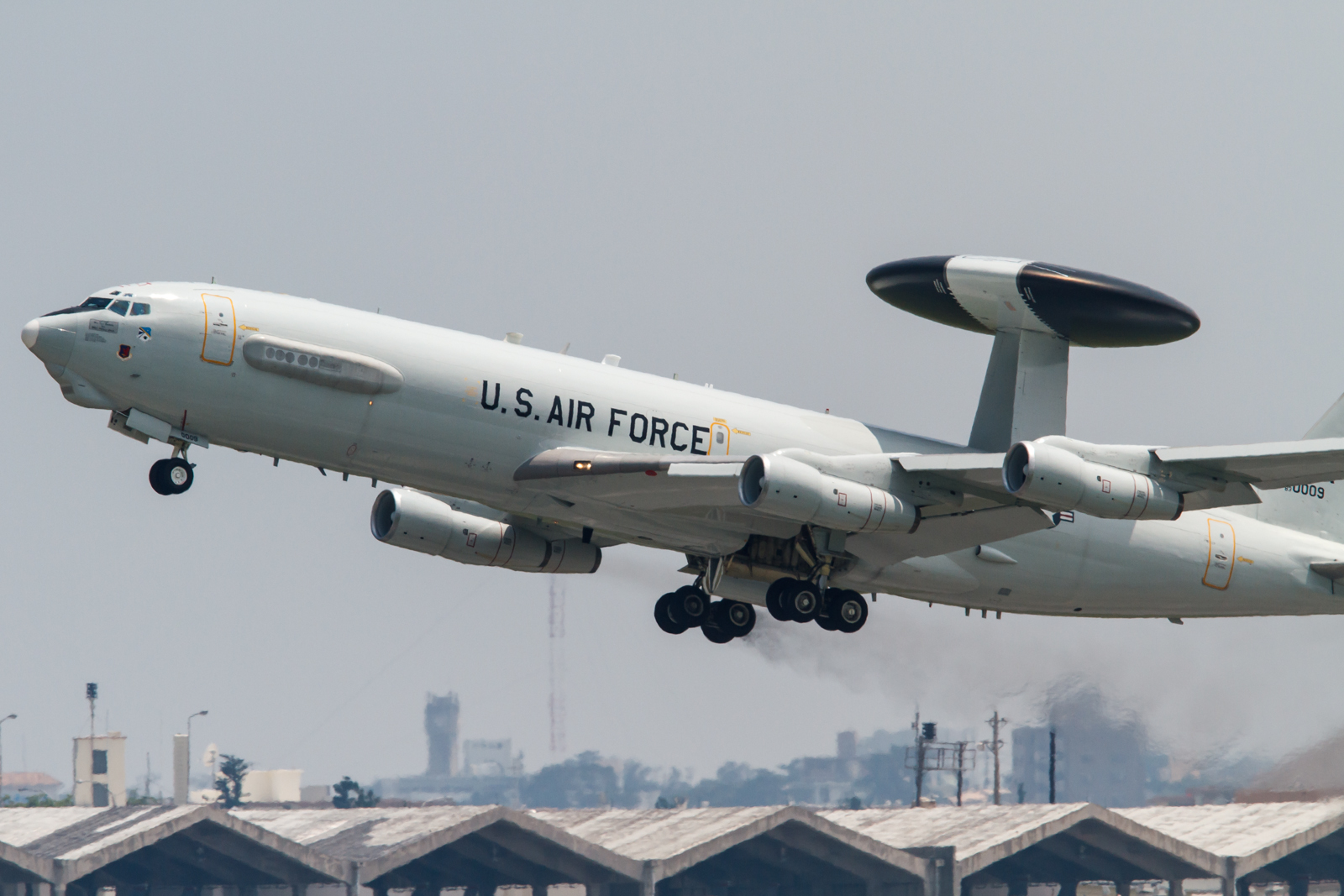 Aircraft: Boeing E-3C Sentry 83-0009/OK (cn: 22837/965) Squadron: USAF 552ACW / 552OG Base: Tinker AFB(KTIK), Oklahoma, United States 06/05/2013 USAF Kadena AFB, Japan